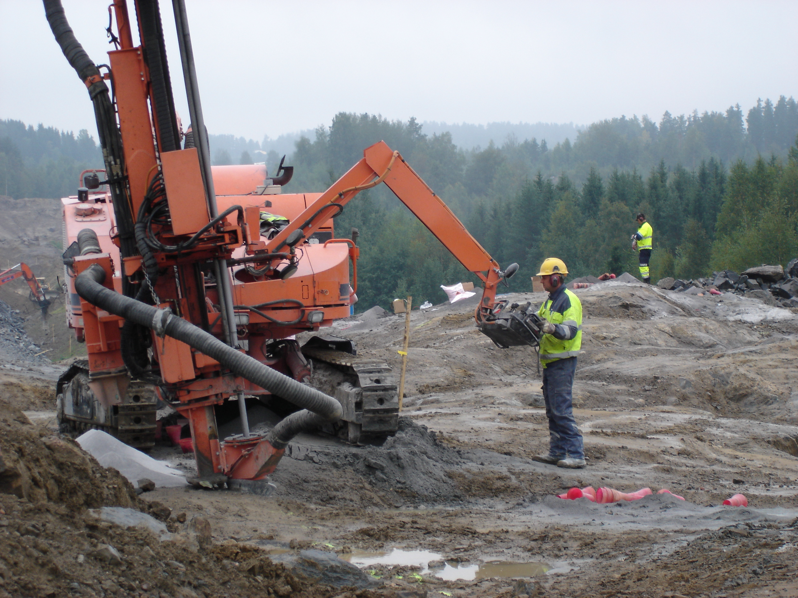 Drilling blast holes in the highway 4 (E75) near Lahti, Finland